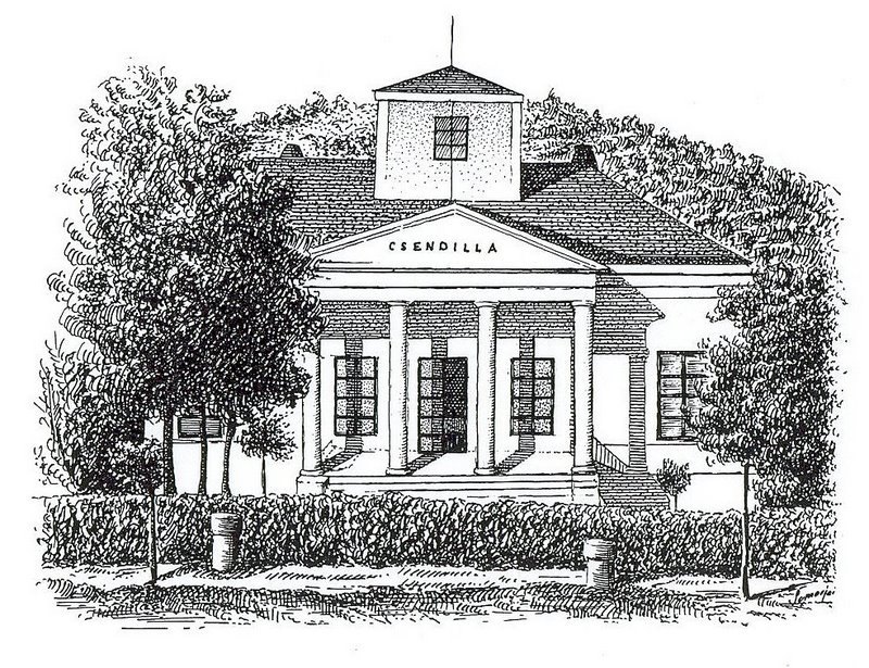 Bungalow "Csendilla" of Mihály Pollack